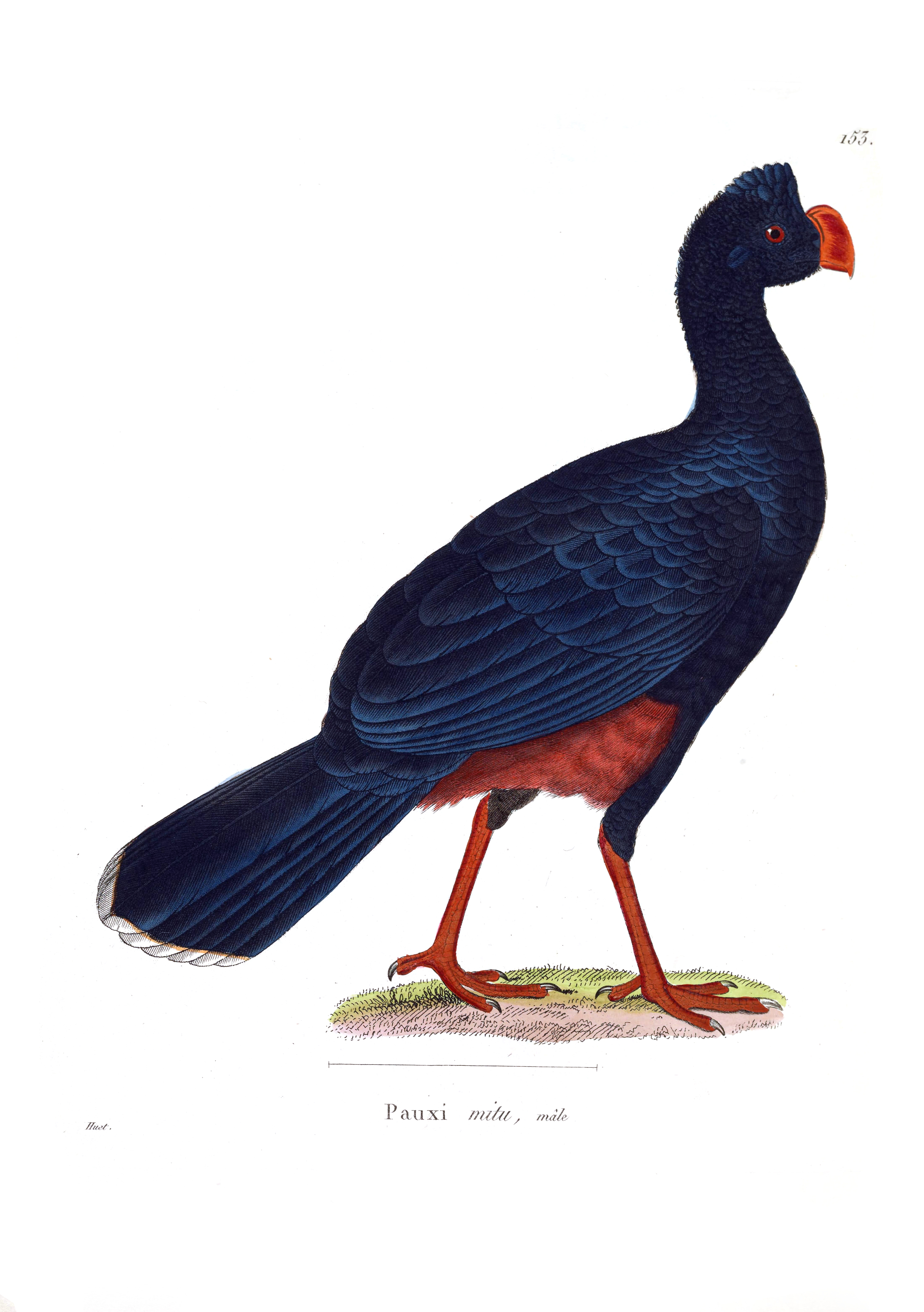 « Ourax mitu » = Mitu mitu (Alagoas Curassow) - adult male